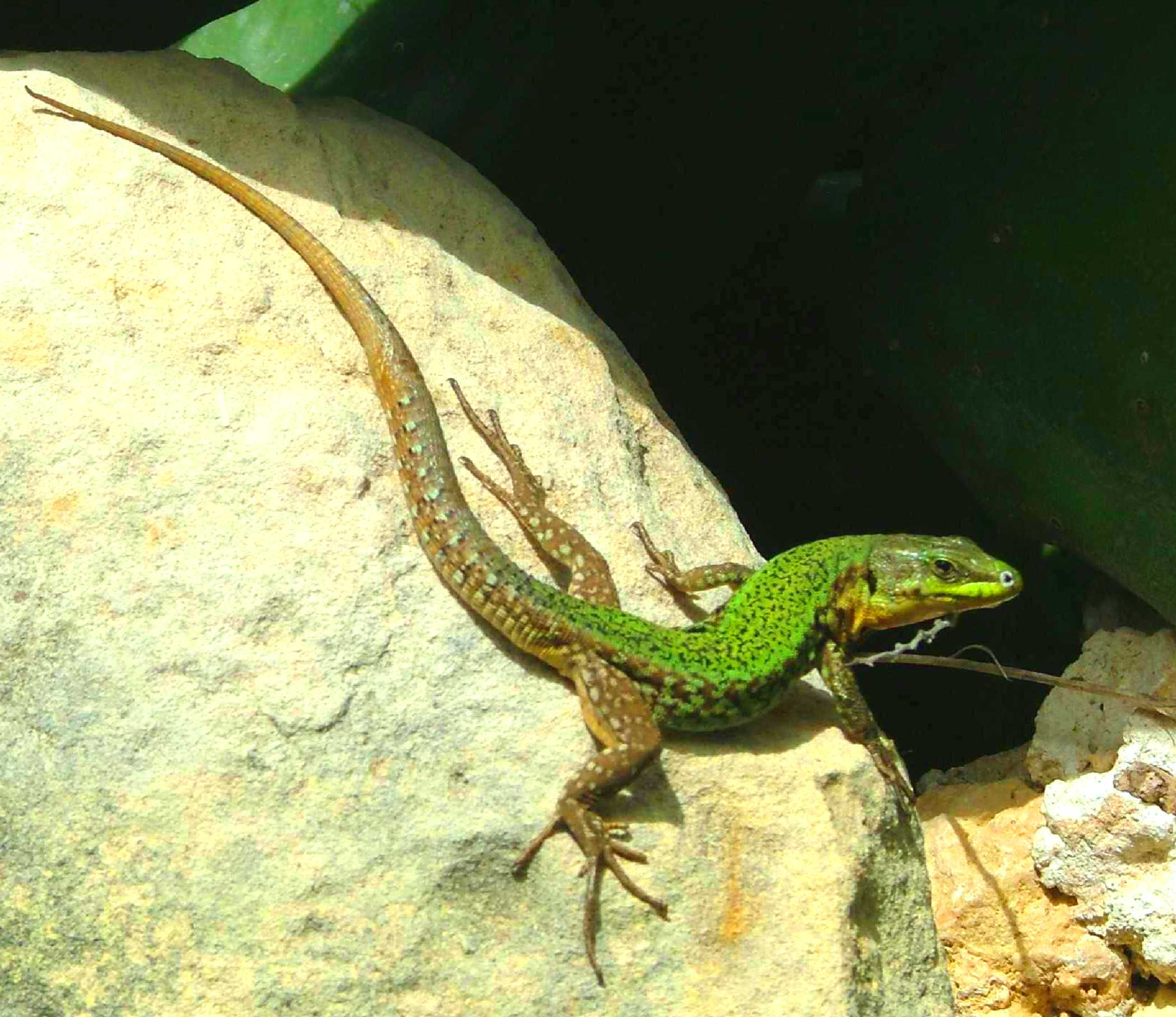 Podarcis filfolensis maltensis male from Gozo Photo by Arnold Sciberras